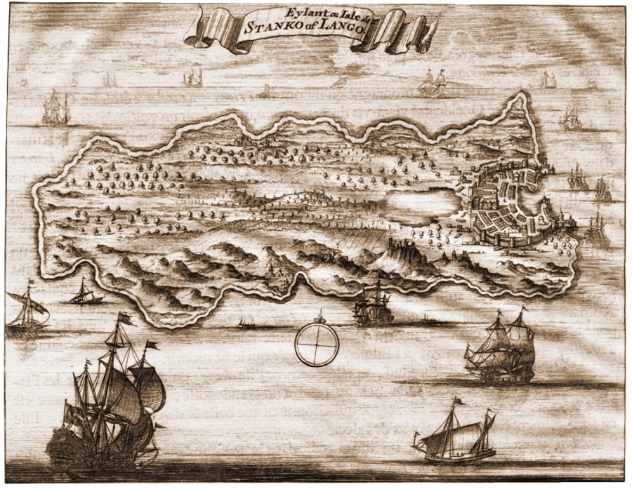 Antique Engraving Map - Cos , Kos - Olfert Dapper 1702. This clean-up version of File:KosMediev.jpg